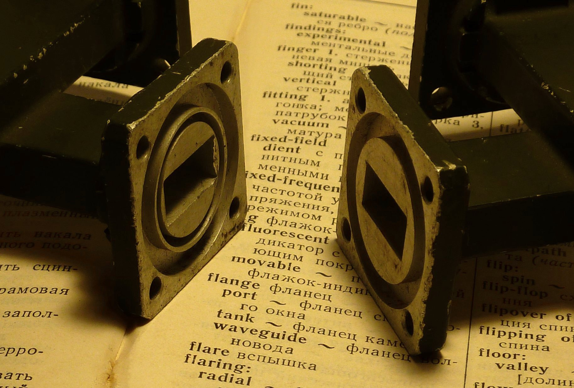 Waveguide choke flange UG-1666/U (so that's on WG18 and is aluminium), and matching gasket/cover flange. This is a composite picture because these flanges are on opposite ends of the same device (a Moreno crossguide coupler) and I didn't want to saw it in half. The book is Ю. В. Катышев, Д. Л. Новиков, Э. А. Полферов, editor: В. П. Дмитриевского «Англо-Русский Словарь по ускорителям заряженных частиц». The E-plane cross-section of the assembled joint is shown in File:Waveguide-choke-flange-cross-section.svg.